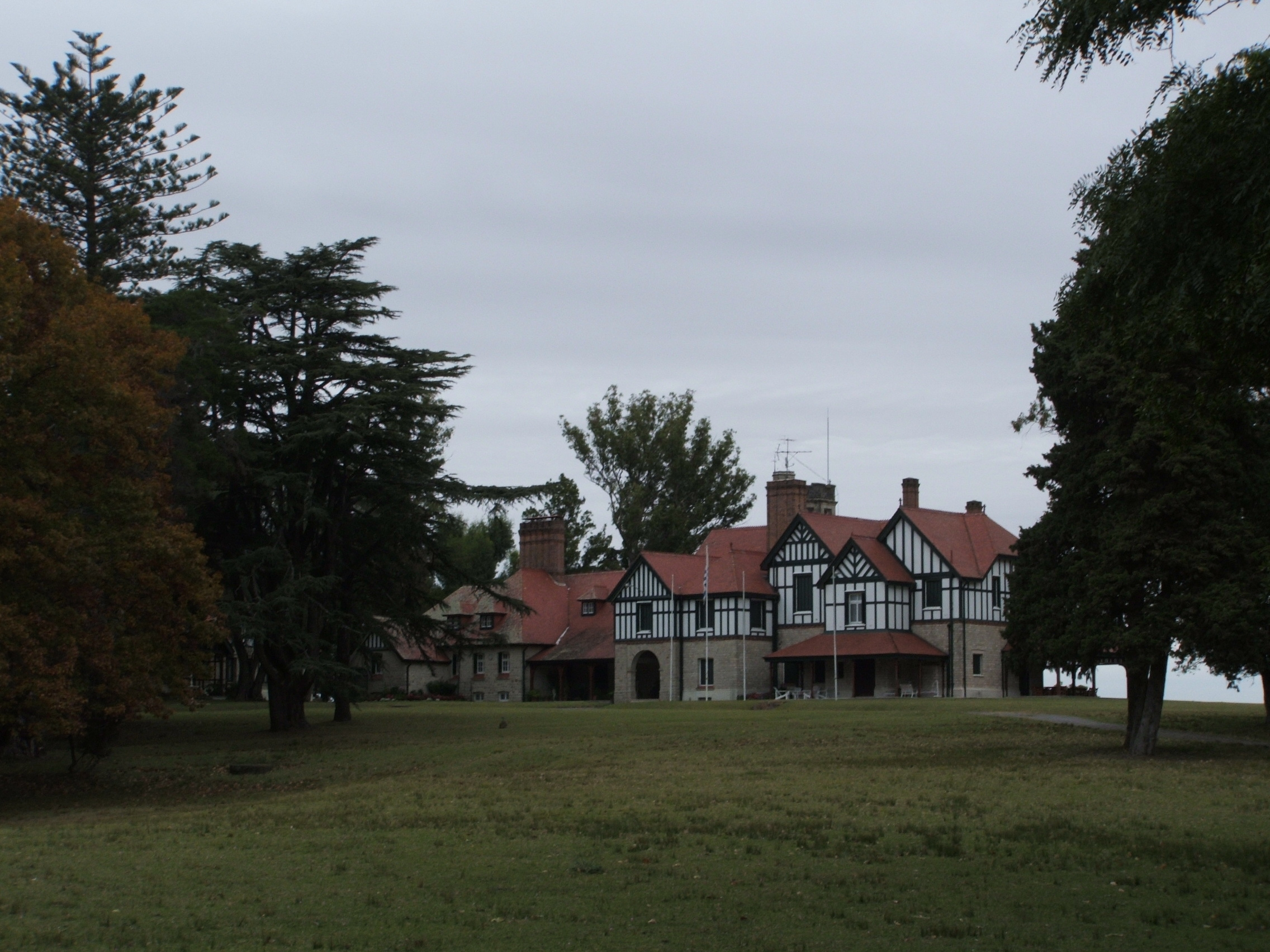 Presidential summer residence, Anchorena Park, Colonia, Uruguay